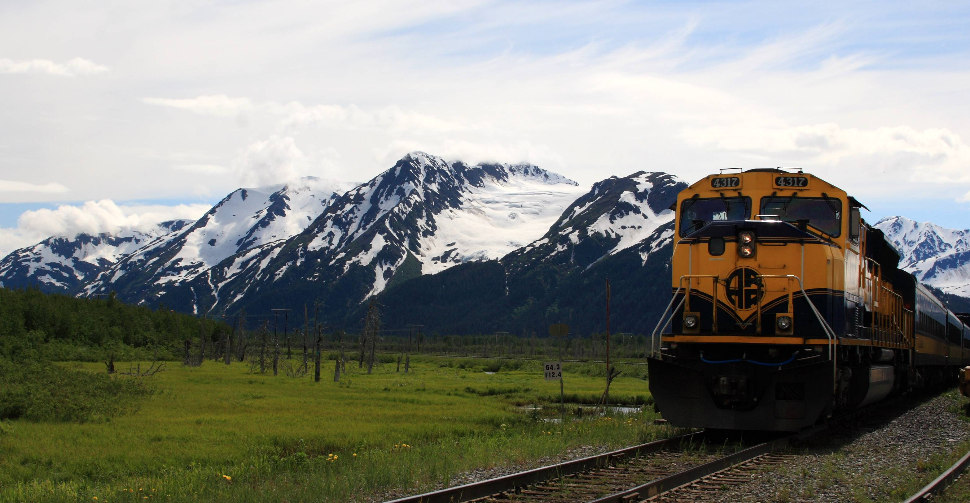 We took a short day hike to Spencer Glacier in June 2009; this was part of an Alaskan Railroad (ARR) special offer since the glacier is only accessible by rail. Spencer Lake and Glacier are great but ARR doesn't give you much time to visit; we had to hike 6 miles out and back in about 2 hours - easily doable but it didn't leave much time for exploring and photography. In spite of that, it was a great day. Enjoy.